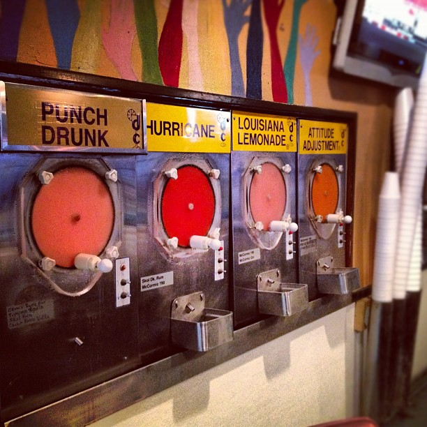 A Louisiana daiquiri bar! 12 flavors! "Frozen daiquiri" (alcohol slushies) bars are fairly common in Louisiana. Some even offer their product a drive thru windows.